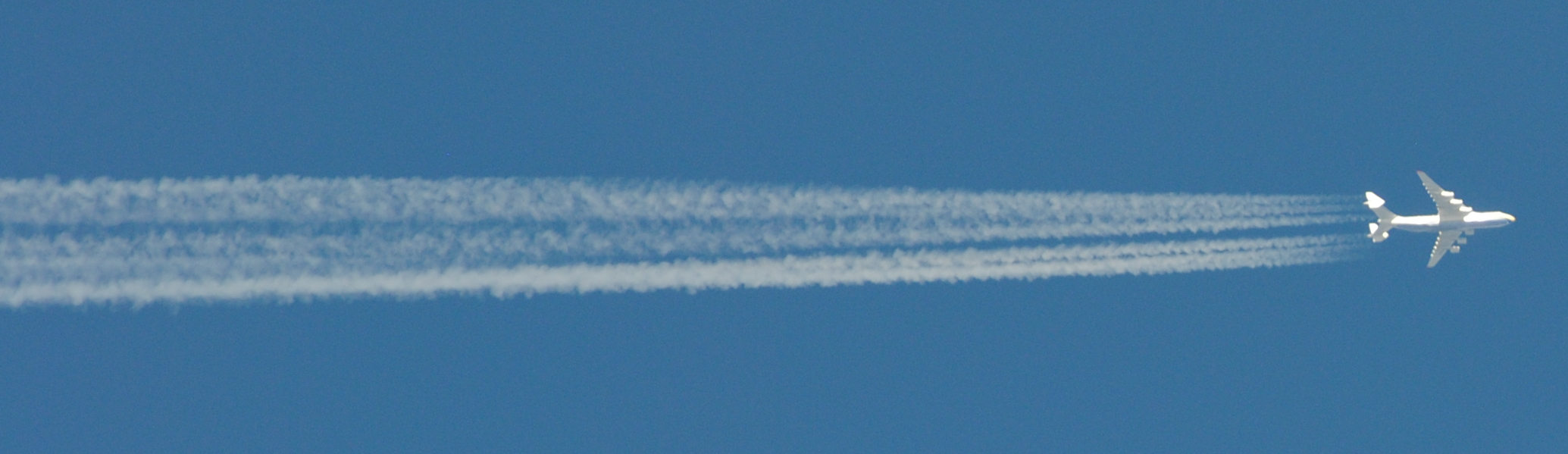 Antonov 225 passing over and east of Birmingham at about 30,000 feet, en route from Boston, USA, via a fuel stop in Prestwick, Scotland, to Chateauroux, France.